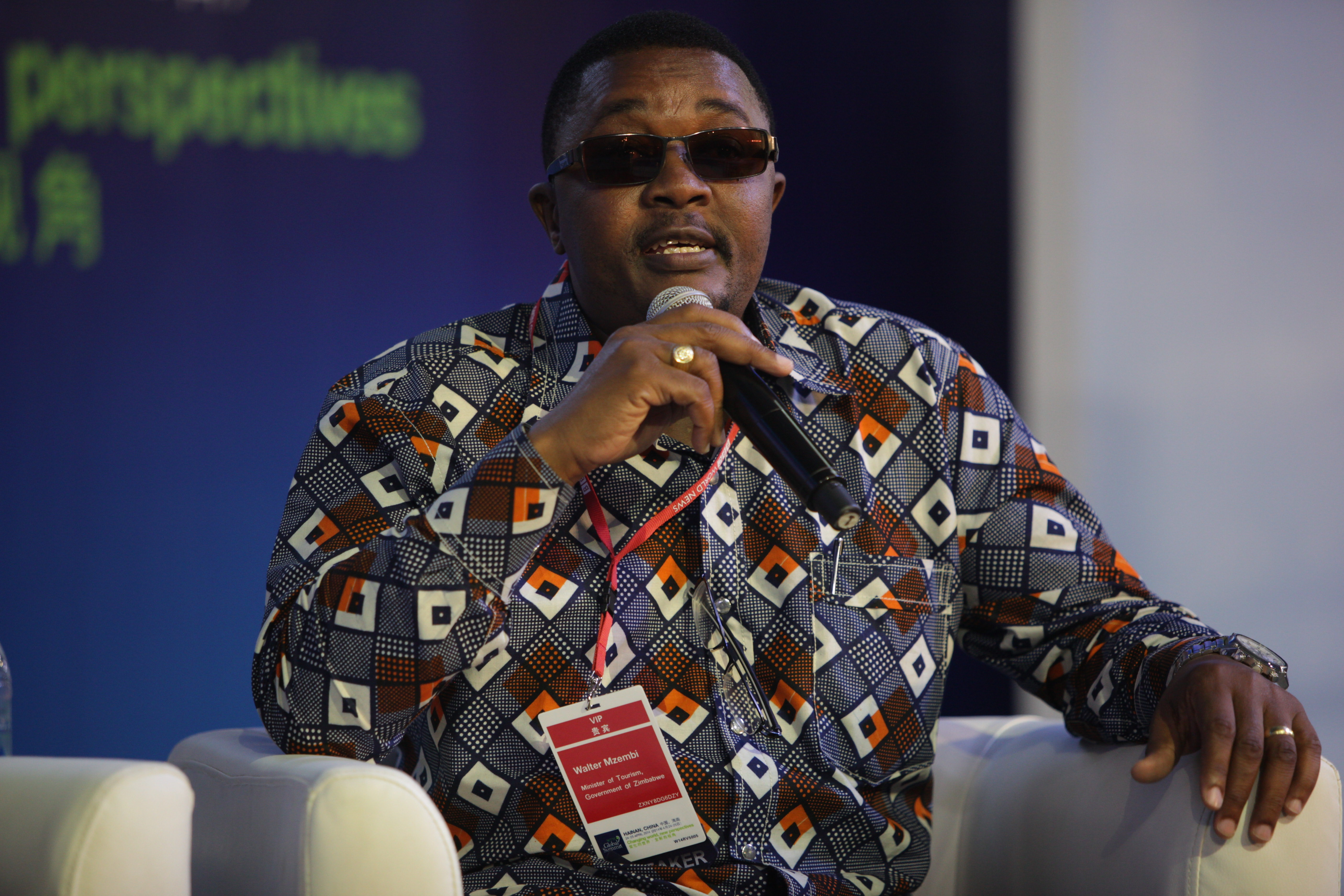 Walter Mzembi, Minister of Tourism, Zimbabwe World Travel & Tourism Council Flickr images